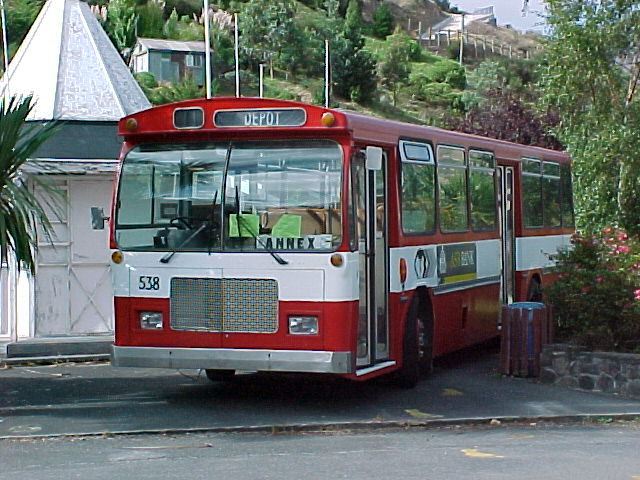 Christchurch Transport Board NZ Bristol RE No. 538 preserved at Ferrymead Heritage Park. Bristol RELL 6L with Hess bodywork.